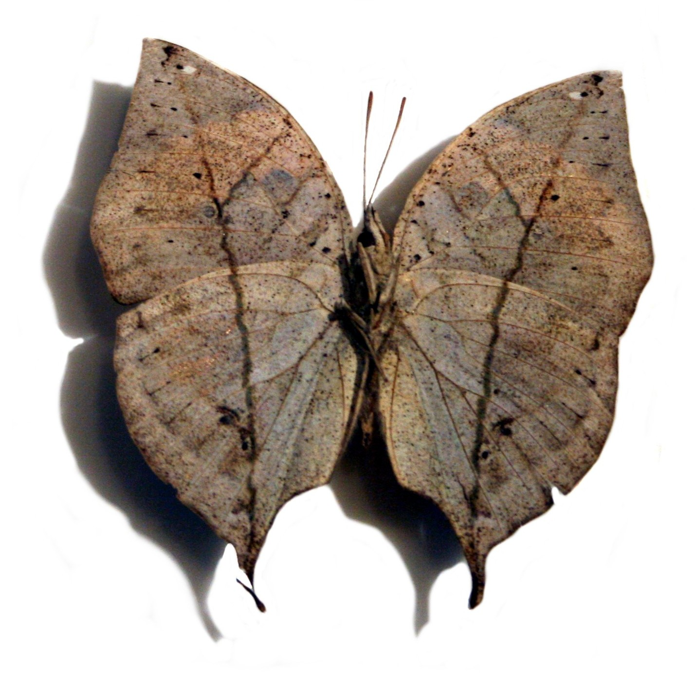 Kallima inachus. Photograph is taken at an insectarium hence the super-white background. This species of butterfly, as evident from the photograph, is famous for its wings, which resemble dry leaves and therefore provide camouflage.